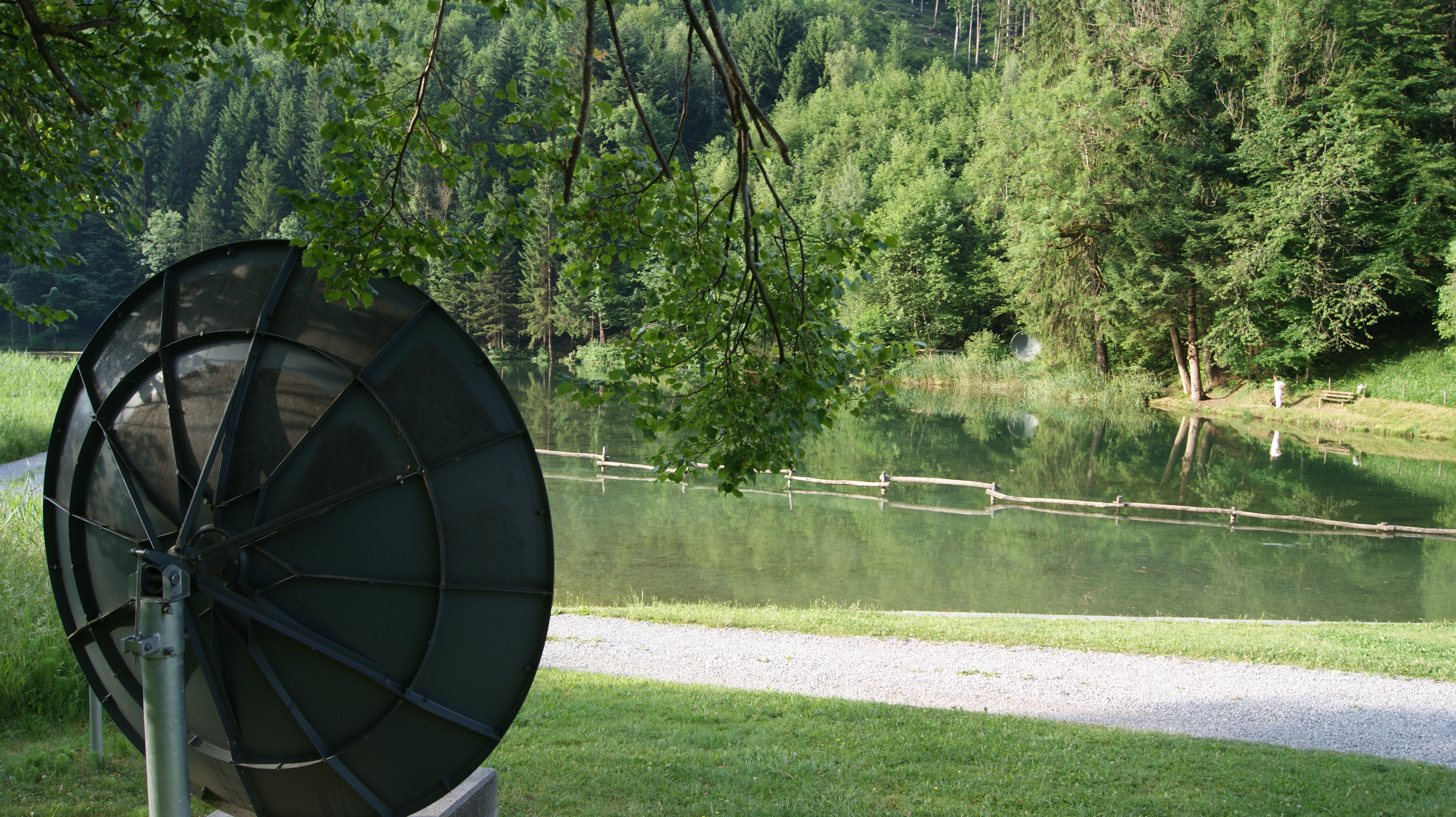 "Whisper reflector" - Acoustic mirror (here at 684 m asl at Lake Fallers) are a possibility for acoustic noise transmission (acoustic reflection). The parabolic reflector are placed 90 m apart and serve both as transmitter and receiver. The higher the frequency of the noise (e.g., speech), the better the reception. Schnifis, Vorarlberg, Austria.